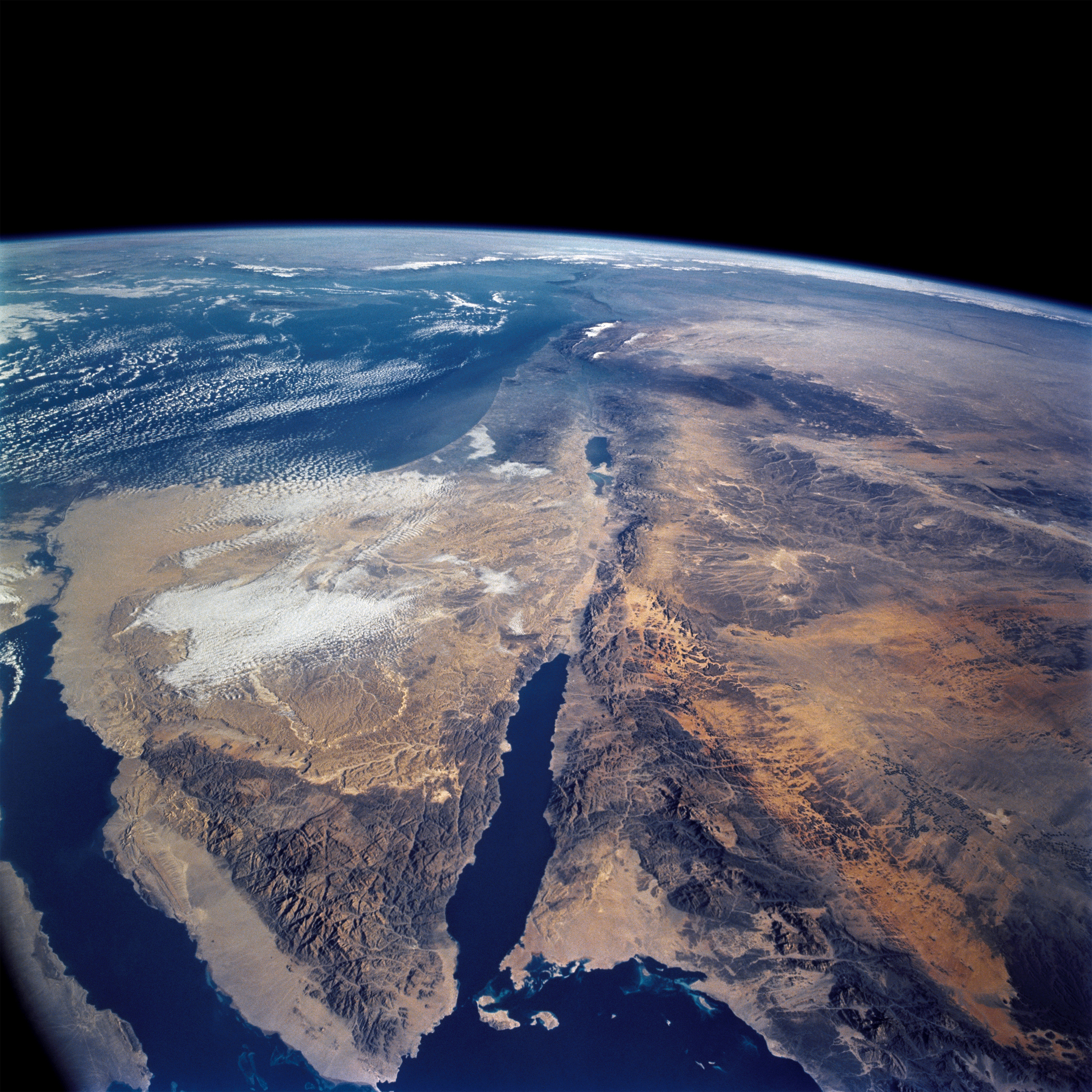 The astronauts on board the Space Shuttle Columbia took this 70mm picture featuring the Sinai Peninsula and the Dead Sea Rift. The left side of the view is dominated by the great triangle of the Sinai peninsula, which is partly obscured by an unusual cloud mass on this day. The famous Monastery of St. Catherine lies in the very remote, rugged mountains in the southern third of the peninsula (foreground). The Gulf of Aqaba is a finger of the Red Sea bottom center, pointing north to the Dead Sea, the small body of water near the center of the view. According to NASA scientists studying the STS-109 photo collection, the gulf and the Dead Sea are northerly extensions of the same geological rift that resulted in the opening of the Red Sea. The Gulf of Suez appears in the lower left corner. Northwest Saudi Arabia occupies the lower right side of the view, Jordan and Syria the right and top right, and the Eastern Mediterranean Sea the top left. Thin white lines of cloud have formed along the coastal mountains of southern Turkey and stretch across the top of the view near the Earth's limb.